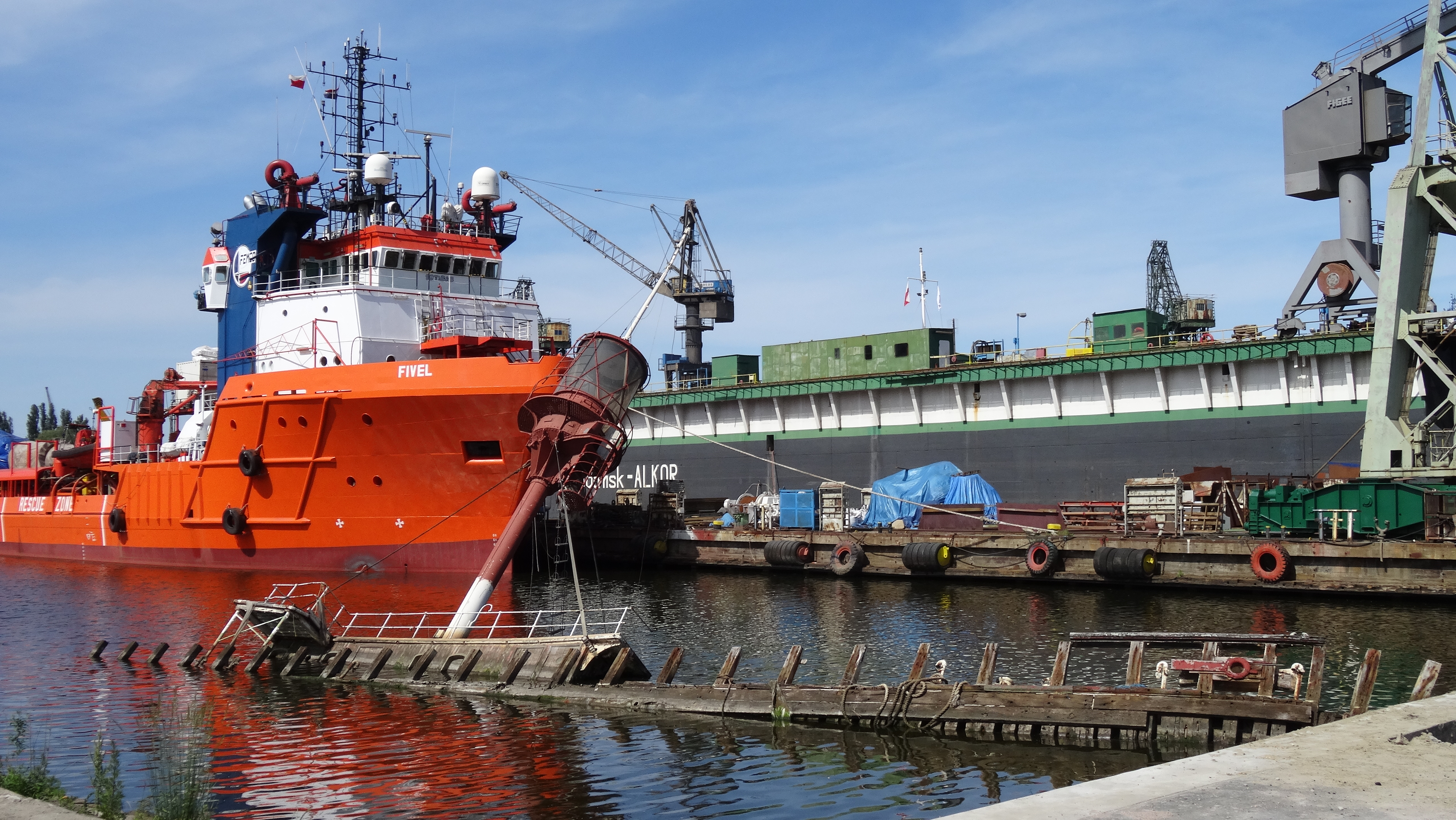 Motorfyrskib No. II wreck in Gdańsk shipyard